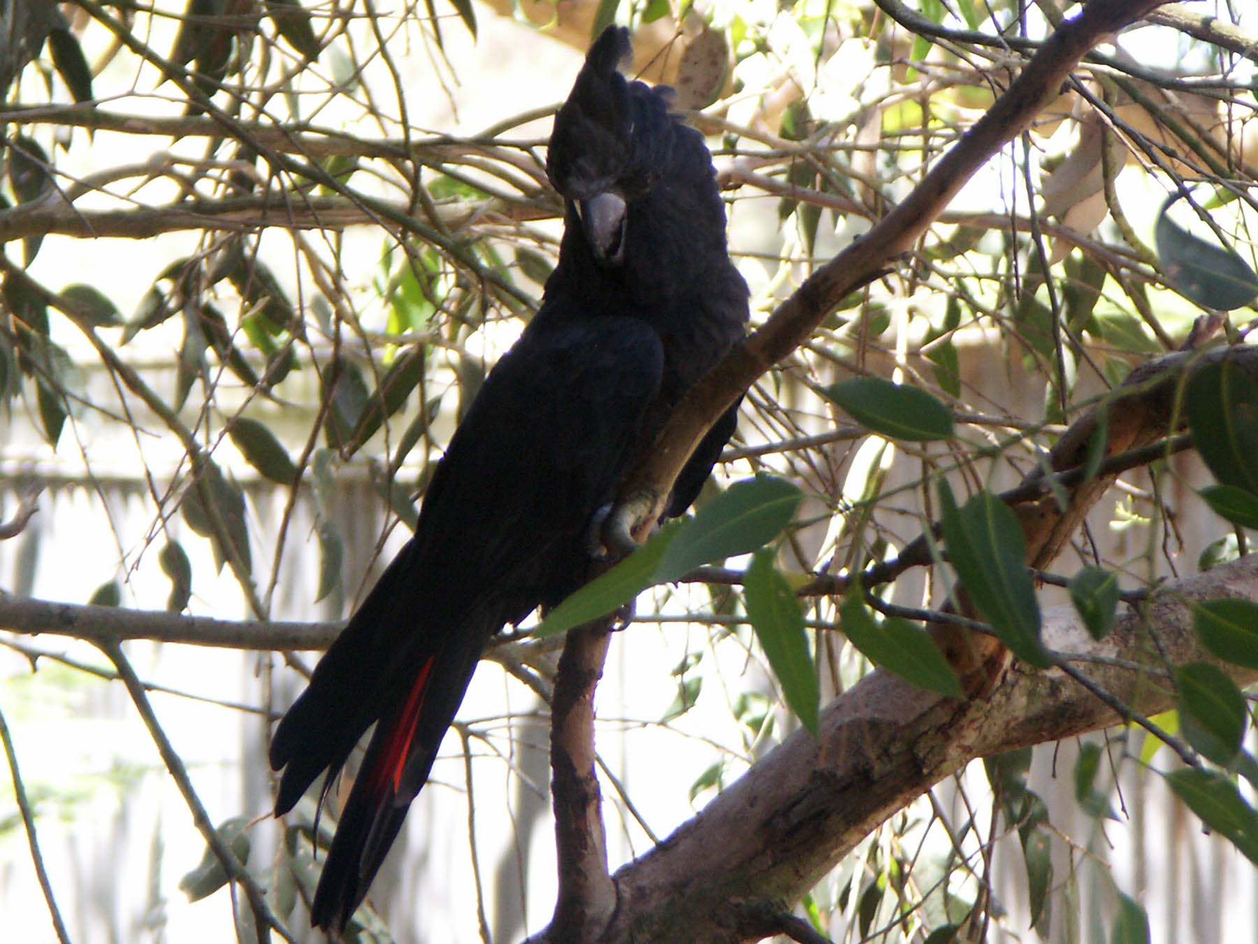 Glossy Black Cockatoo taken on Kangaroo Island